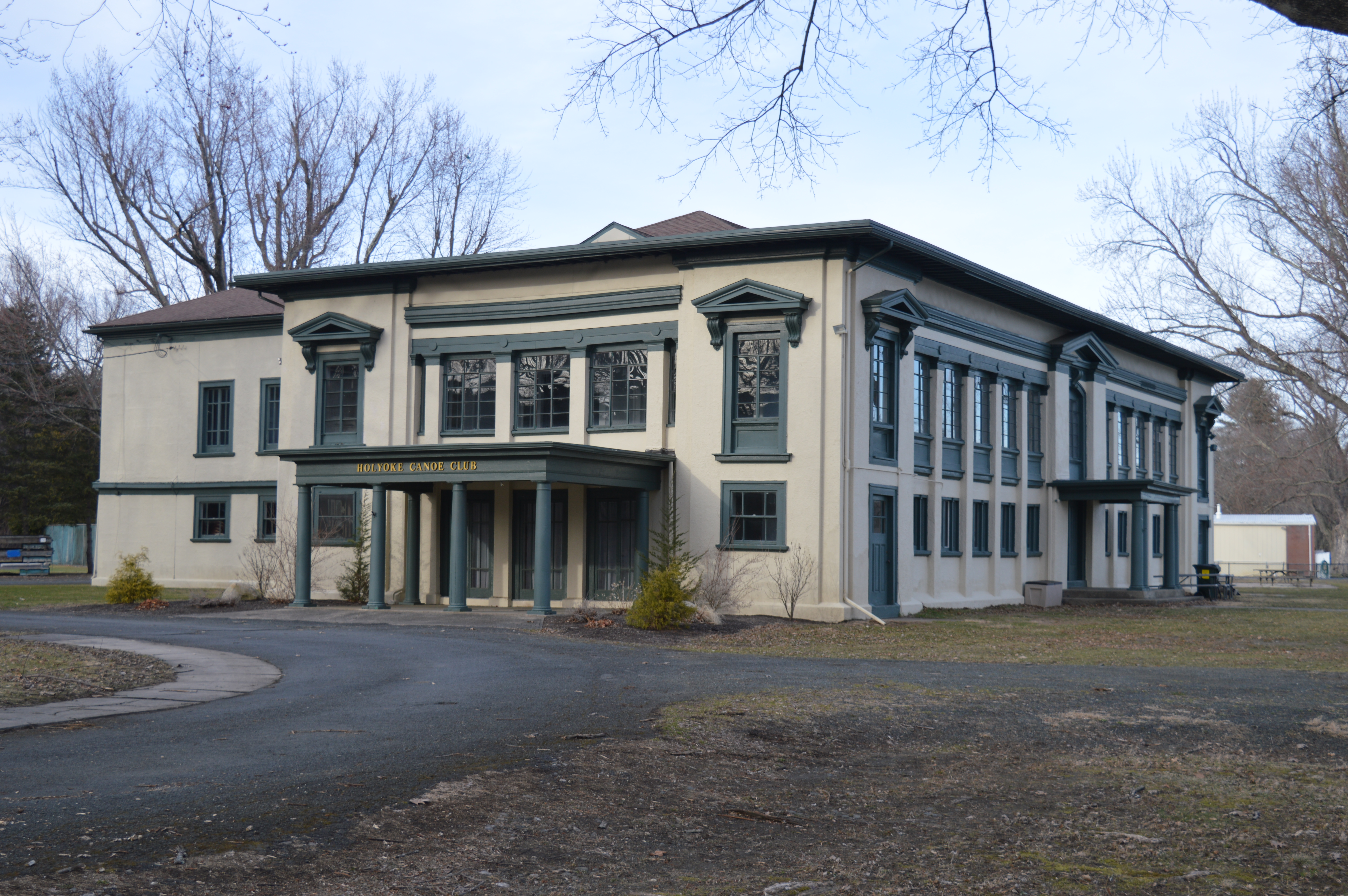 The main clubhouse of the Holyoke Canoe Club in the Smith's Ferry neighborhood of Holyoke, Massachusetts, on the banks of the Connecticut River. Despite being eligible, it is not on the National Register of Historic Places.